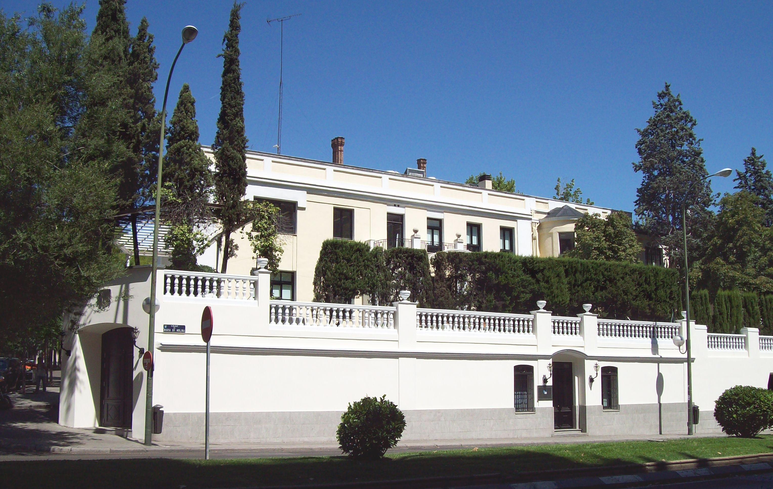 Exterior view of IE Business School in Madrid (Spain), at 11th Calle de María de Molina (street) in Chamartín district.